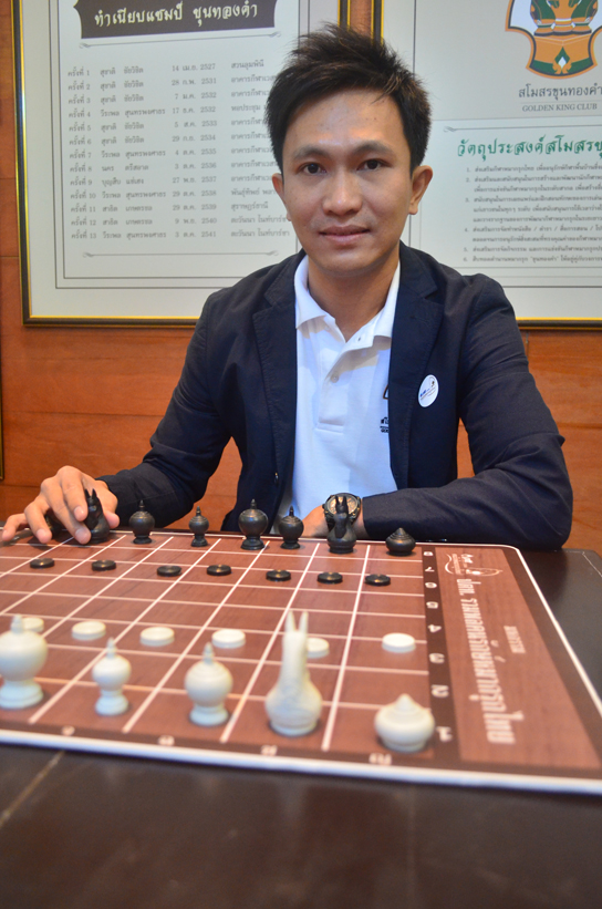 Uaychai Kongsee 3